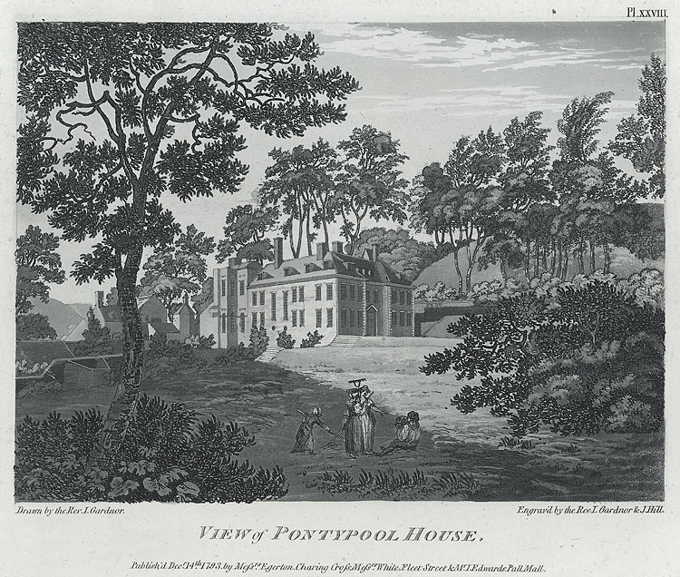 View of Pontypool house, showing figures working in the gardens.